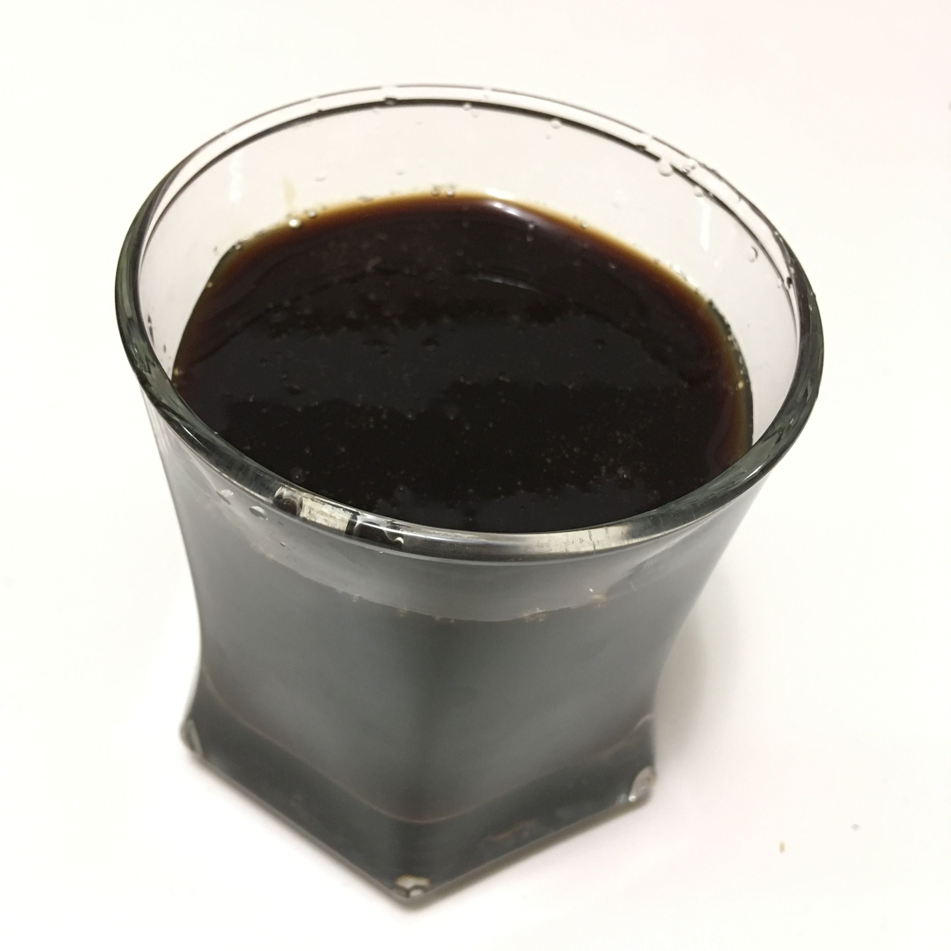 A paste/sauce made of manna in the Kurdish city of Mariwan